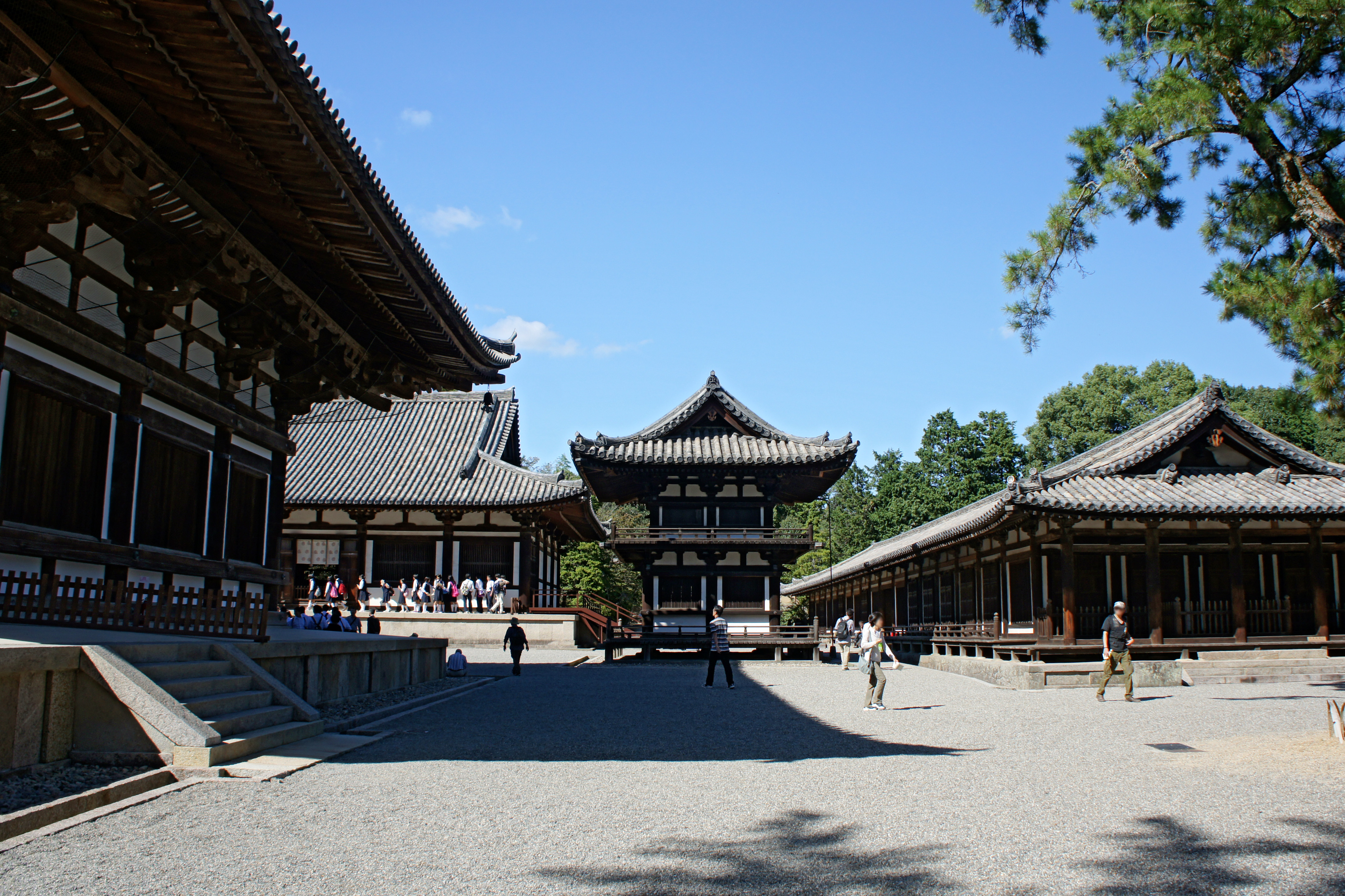 Tōshōdai-ji's Korō is a Japan's National Treasure in Nara, Nara prefecture, Japan. It was built in 1240.